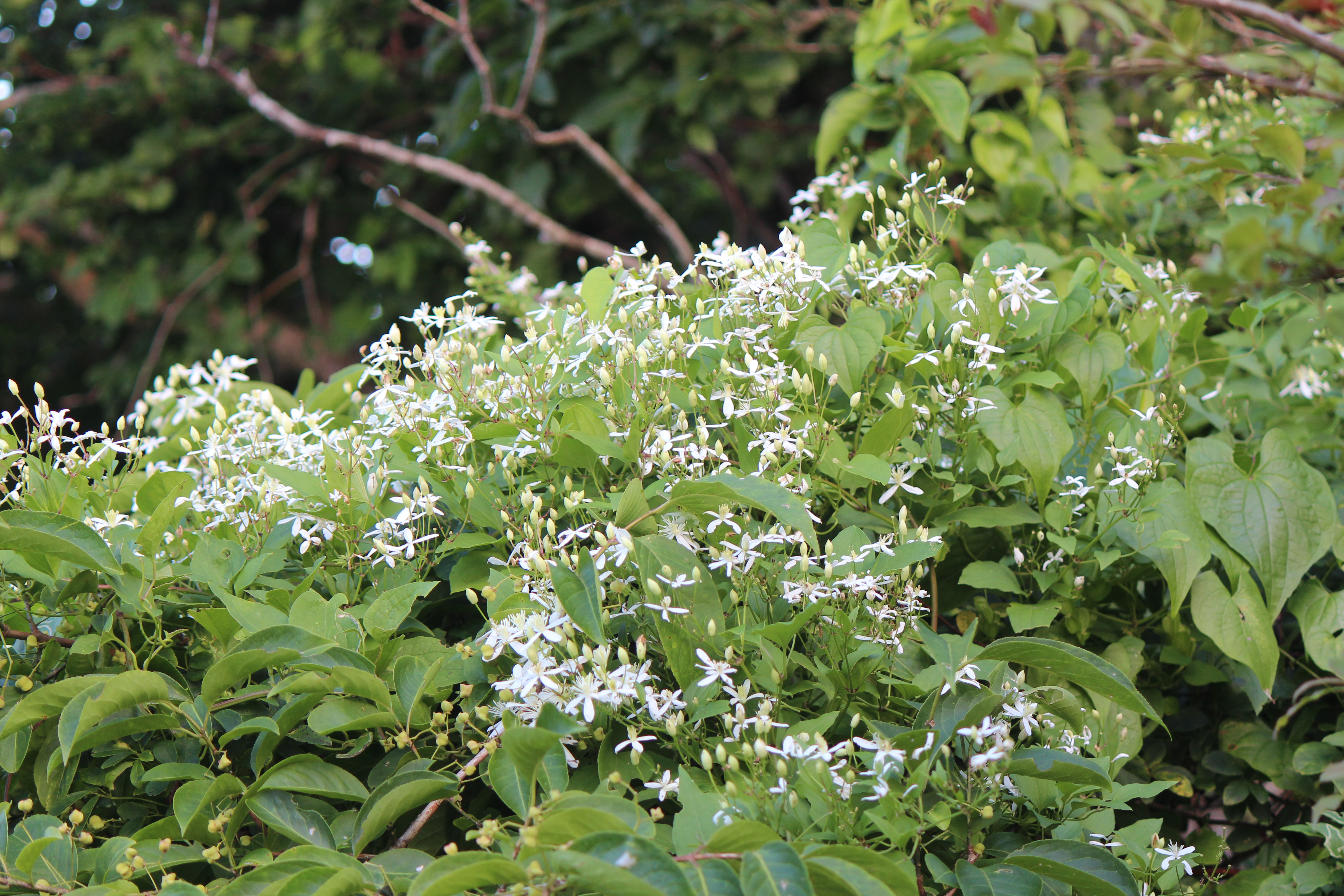 Clematis terniflora and Euonymus hamiltonianus in Mount Ibuki, Maibara, Shiga prefecture, Japan.